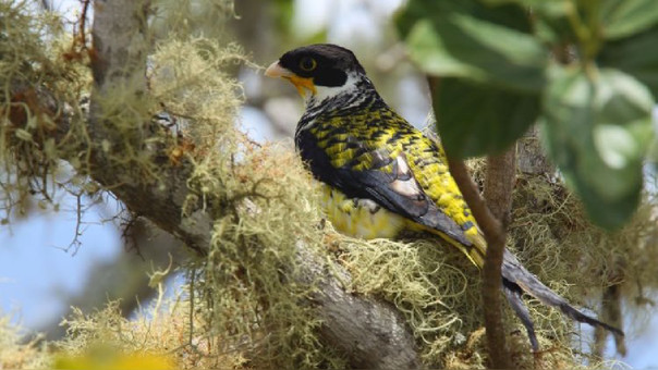 The Palkachupa